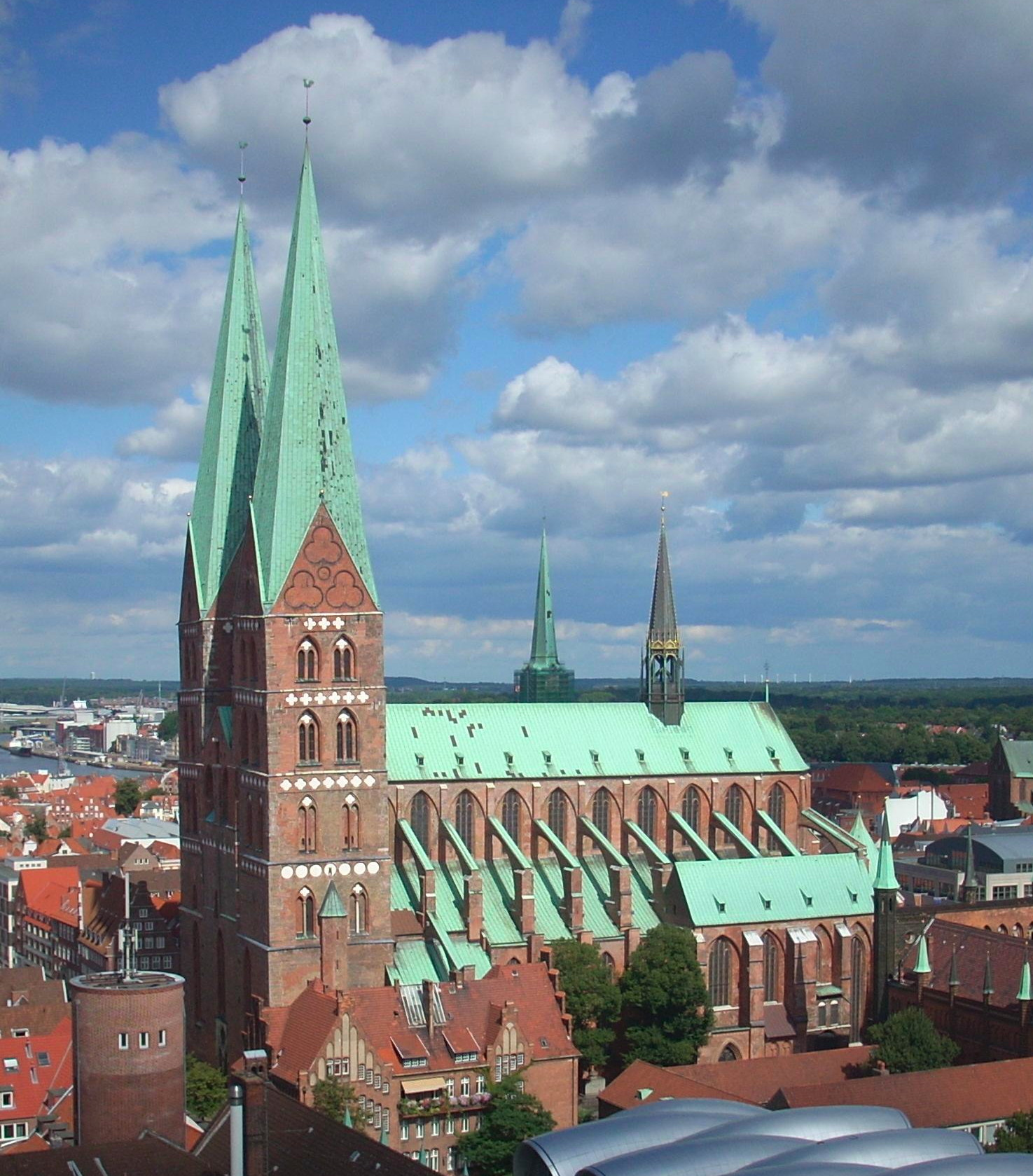 Lübeck, St. Marien. Original version released as PD by Rabanus Flavus.